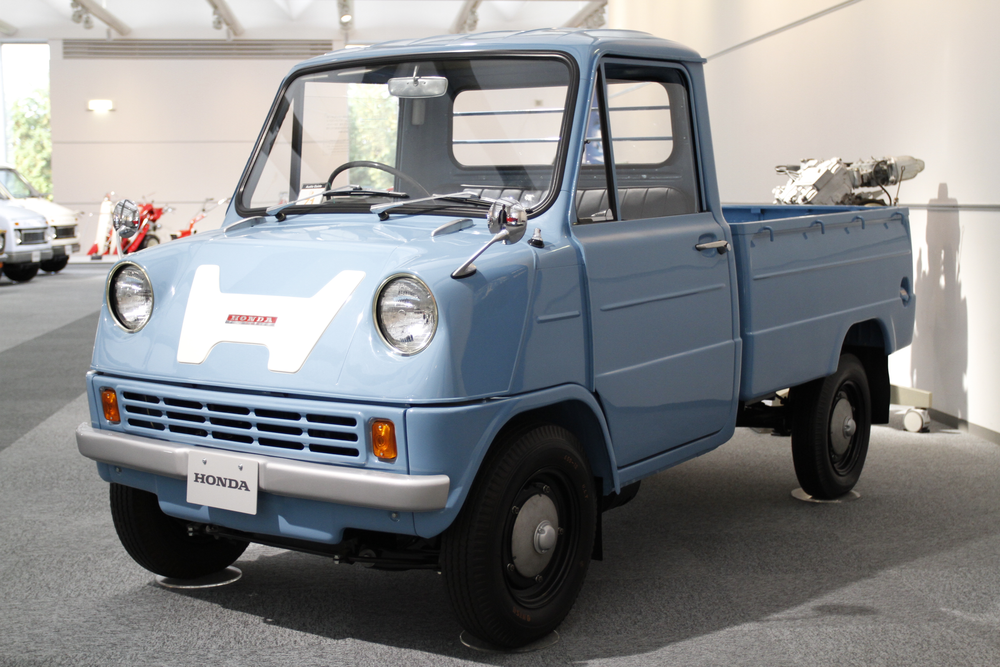 HONDA T360 photographed in Honda Collection Hall.